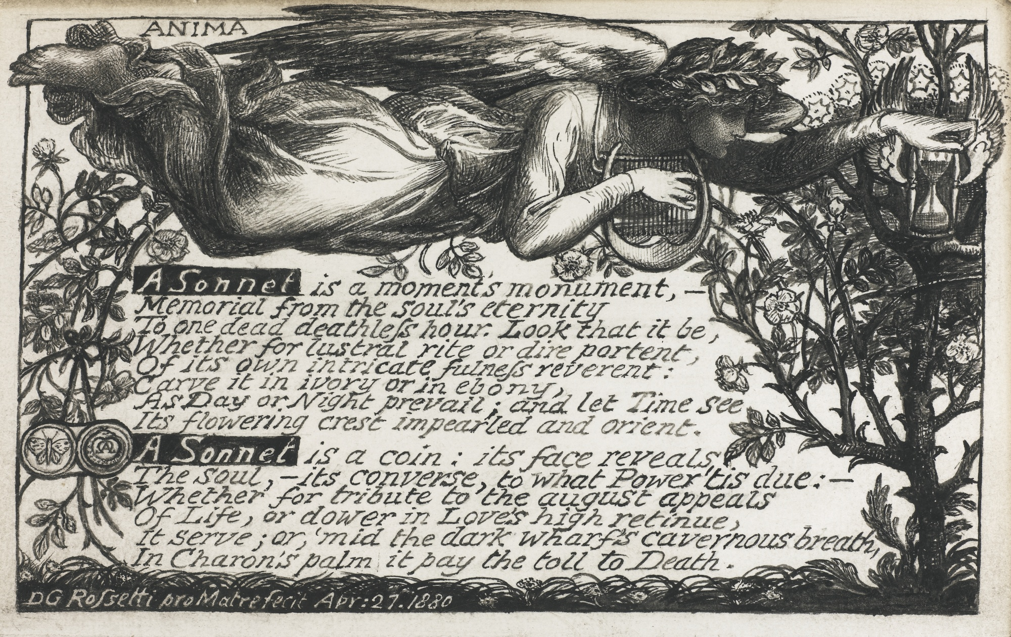 A Sonnet is a moment's monument,— Memorial from the soul's eternity To one dead deathless hour. Look that it be, Whether for lustral rite or dire portent, Of its own intricate fulness reverent: Carve it in ivory or in ebony, As Day or Night prevail; and let Time see It's flowering crest impearled and orient. A Sonnet is a coin: its face reveals The soul,—its converse, to what Power 'tis due:— Whether for tribute to the august appeals Of Life, or dower in Love's high retinue, It serve; or, 'mid the dark wharf's cavernous breath, In Charon's palm it pay the toll to Death.